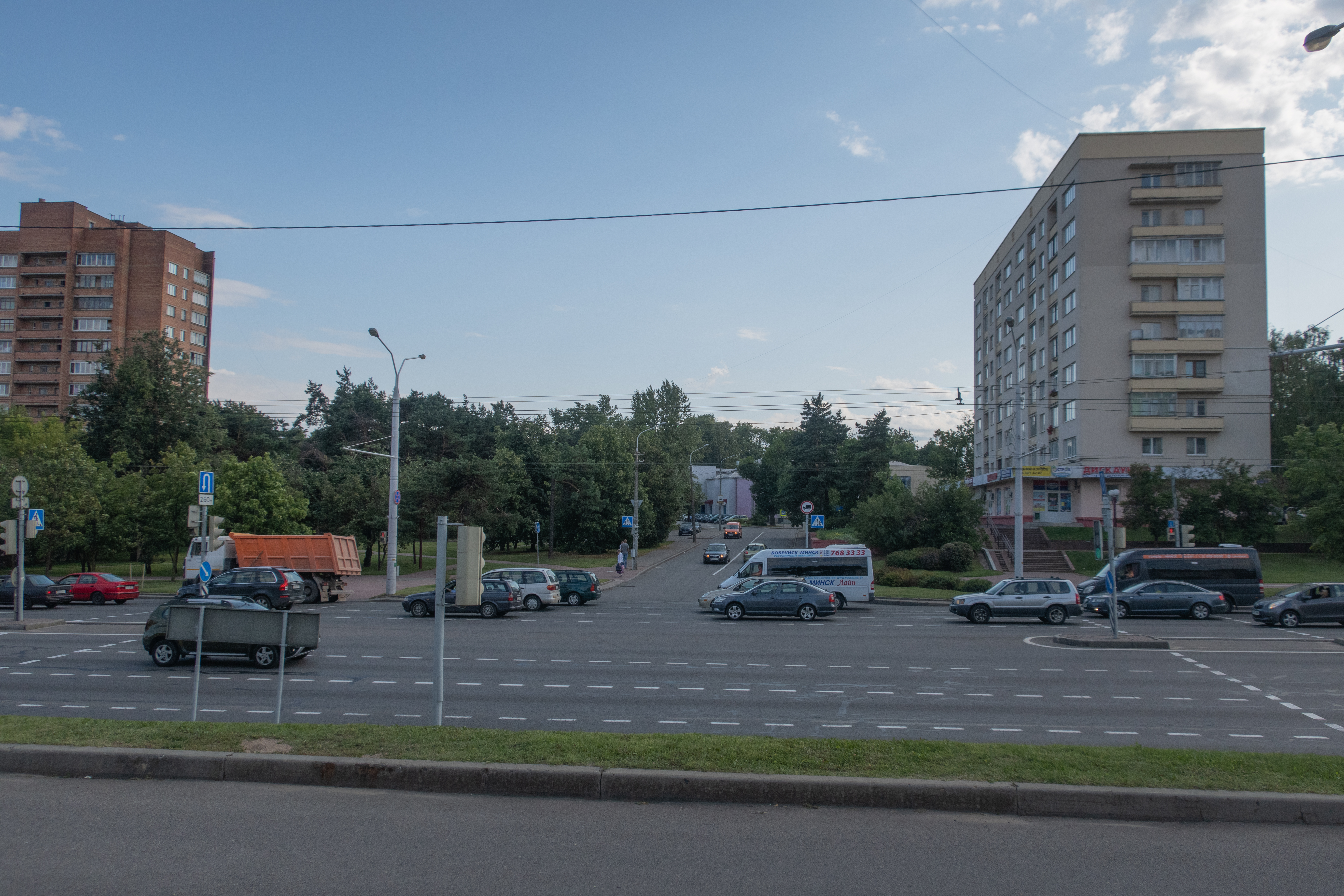 Intersection of Šasejnaja street and Partyzanski avenue. Minsk, Belarus